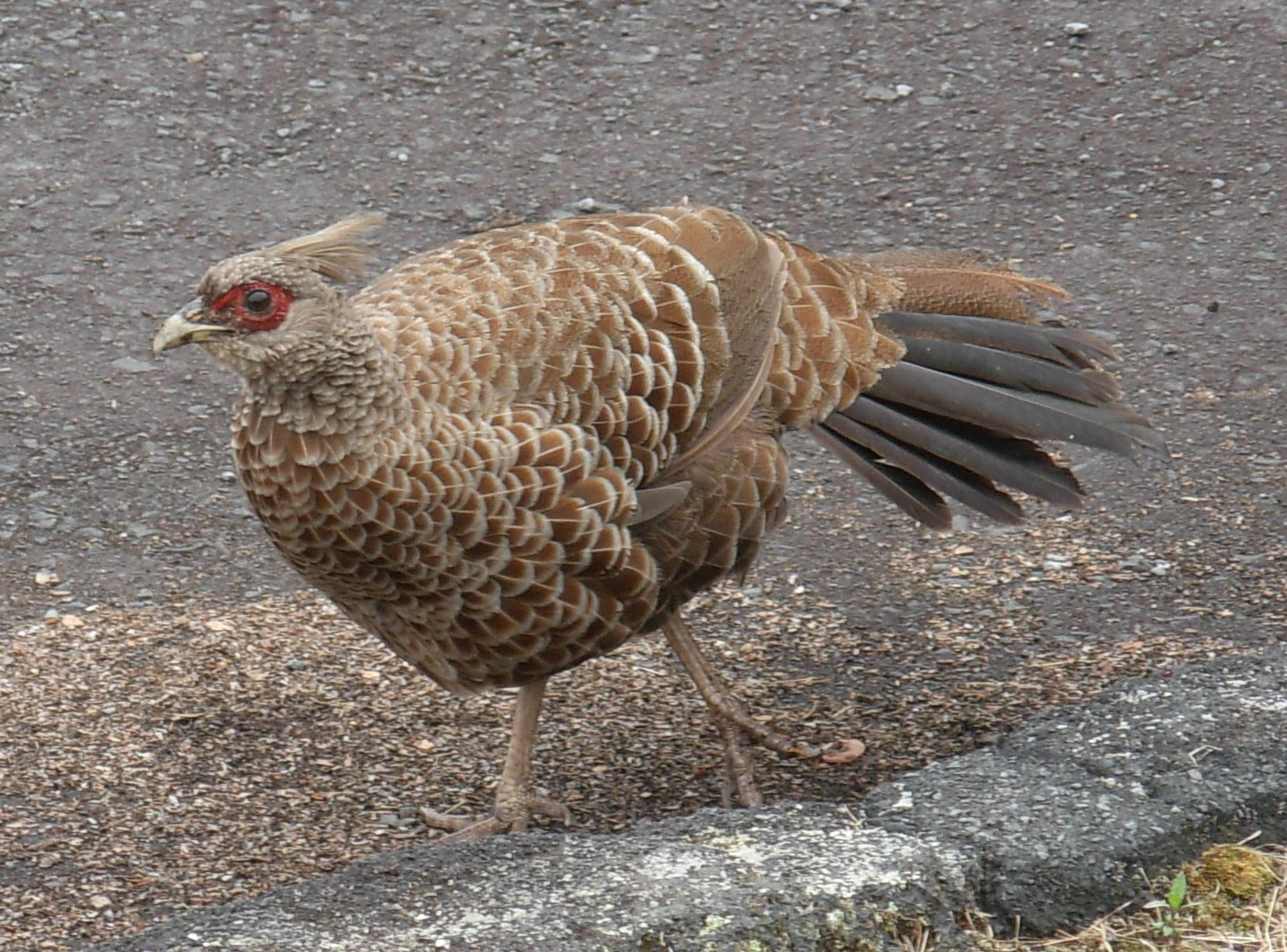 White-crested Kalij Pheasant female (Lophura leucomelanos hamiltonii) in Kilauea, Hawaii Volcanoes National Park, Hawaii